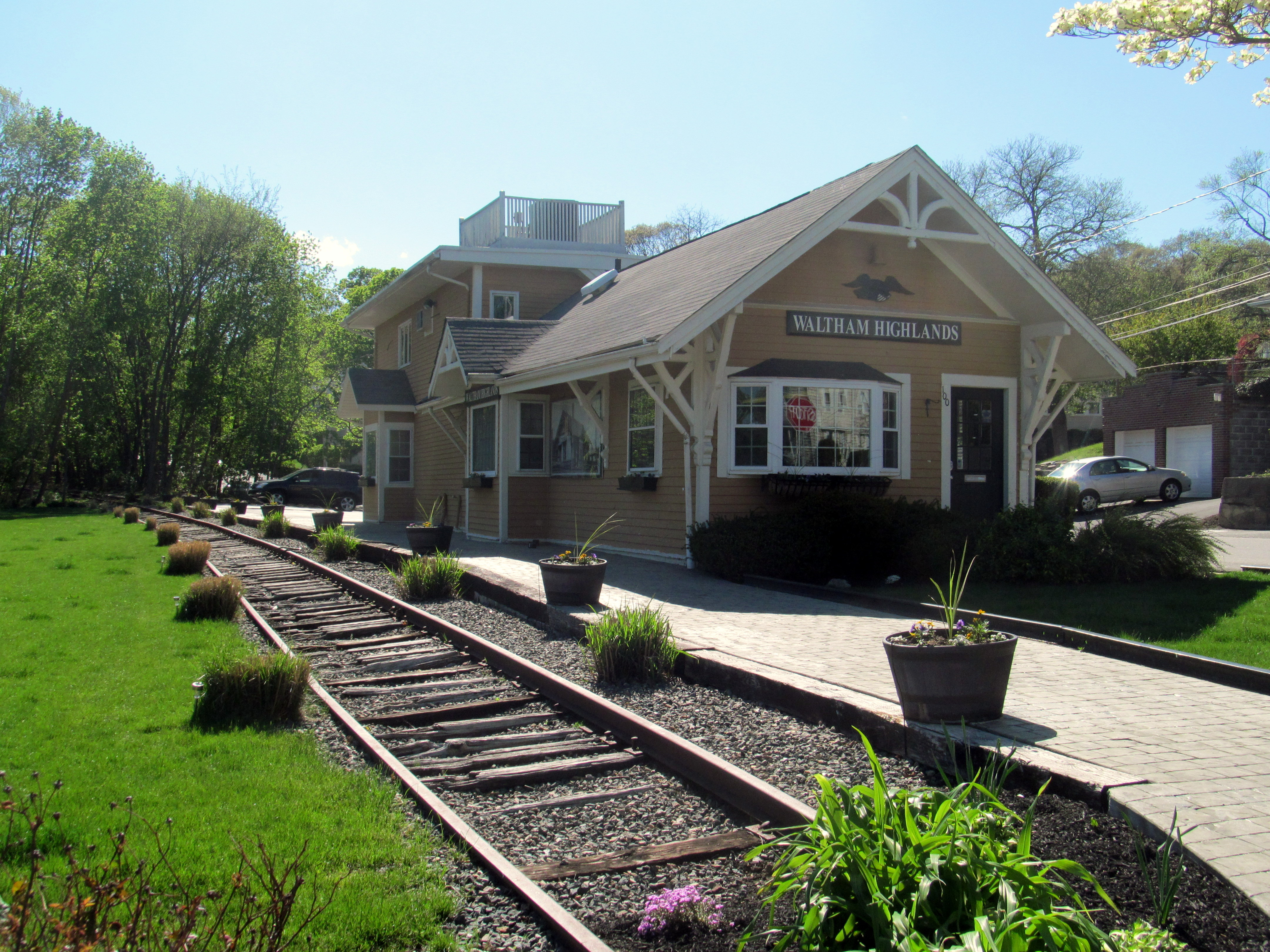 Waltham Highlands station in May 2016